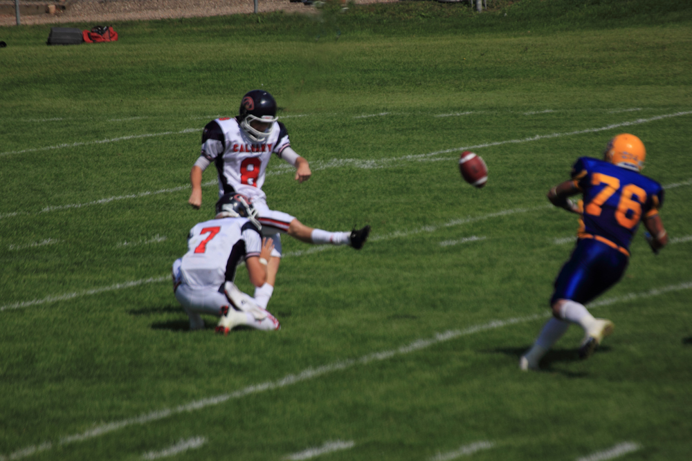 August 12 1:00 pm season starter game for the Hilltops in the Prairie Football Conference. Canadian Junior Football League teams included Calgary and Saskatoon. Calgary Colts were the visitors at Gordie Howe Bowl home to the Saskatoon Hilltops In the last minutes of the game Saskatoon was ahead by one point, Calgary kicked a field goal to win the game by two points. The game ended 32-30 in favour of the Colts. Calgary Colts Field Goal kicker number 8 pictured here on a convert kick ! You may email for a larger rendition of this image or for other game photos. Photograph attribution Julia Adamson